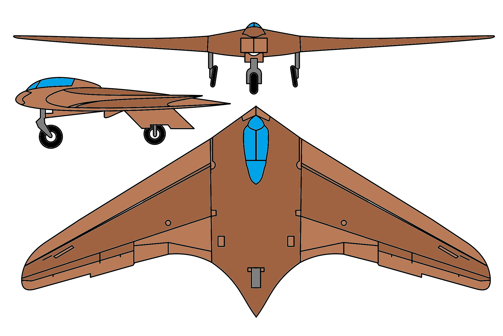 Horten H.IX V1 design color disclaimer this file is only partly of my own work FockeWulf FW 190 (talk) 19:57, 9 August 2013 (UTC)FockeWulf FW 190FockeWulf FW 190 (talk) 19:57, 9 August 2013 (UTC) Thank You